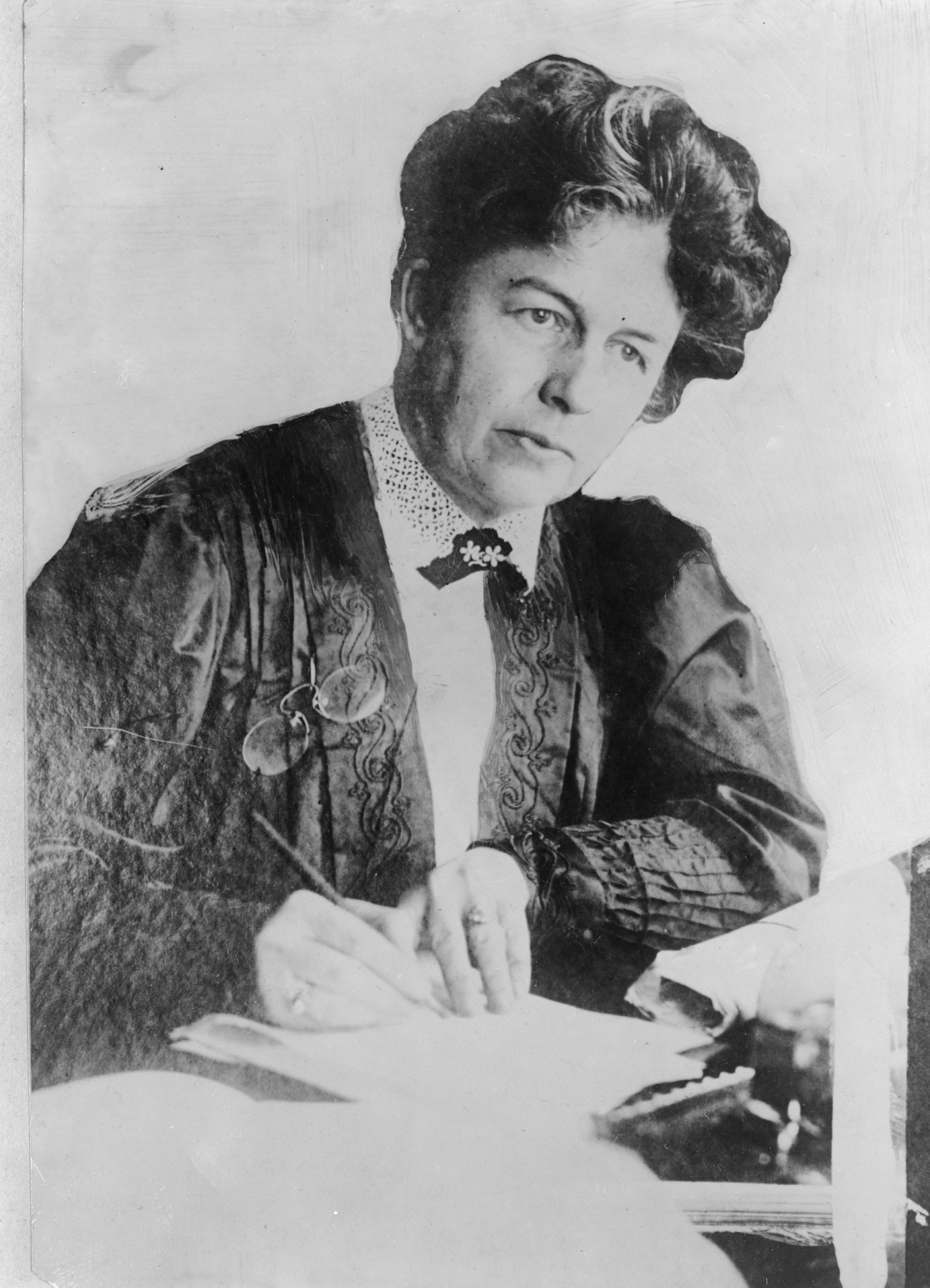 Harriot Stanton Blatch, half-length portrait